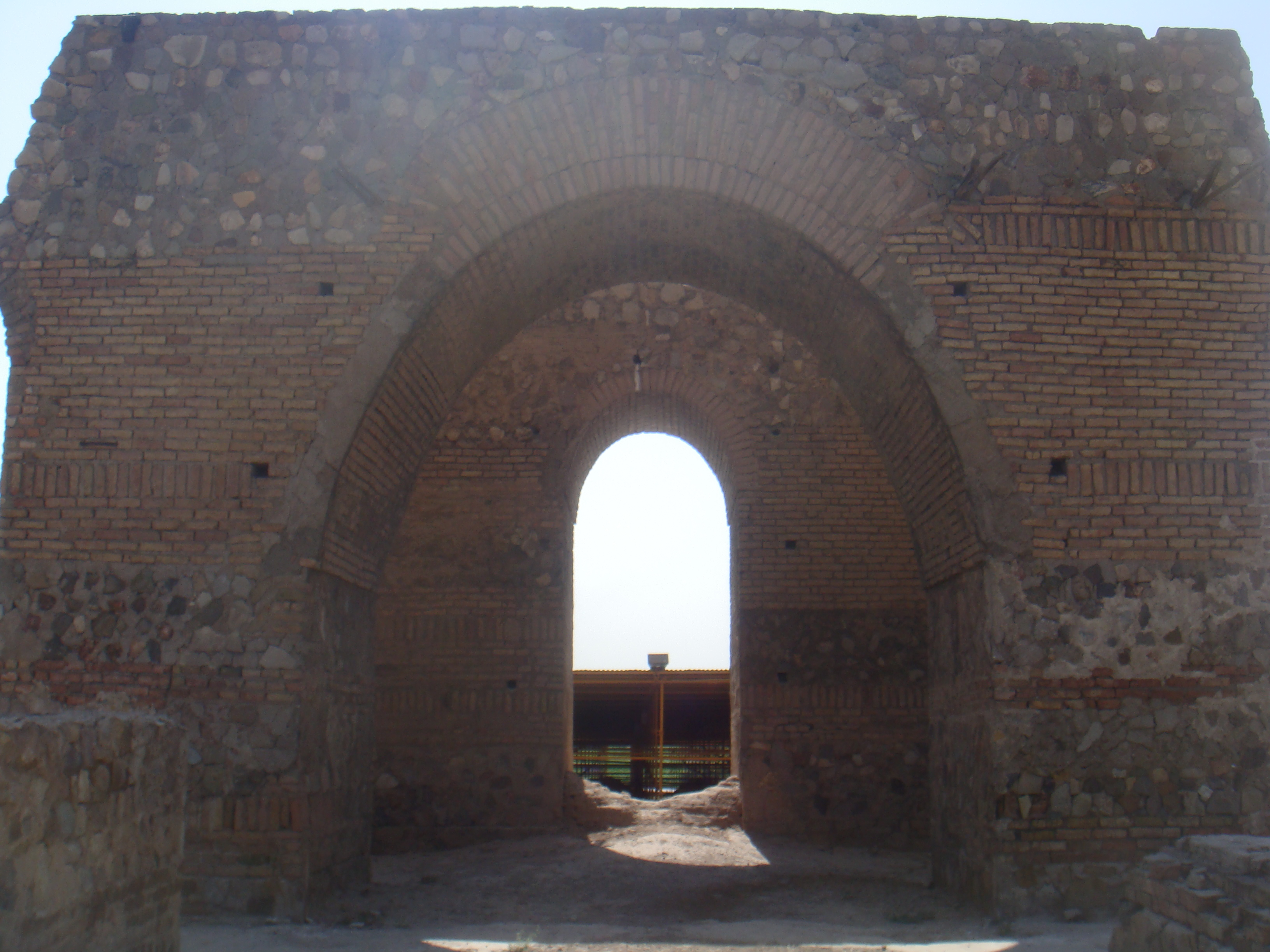 Main room of Bahram fire temple on Tappeh Mill (Ray, Tehran)